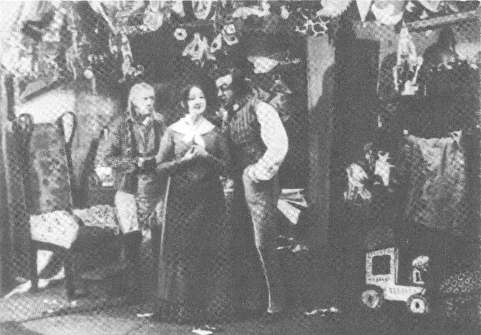 "The Cricket on the Hearth" performance by Charles Dickens, 1914